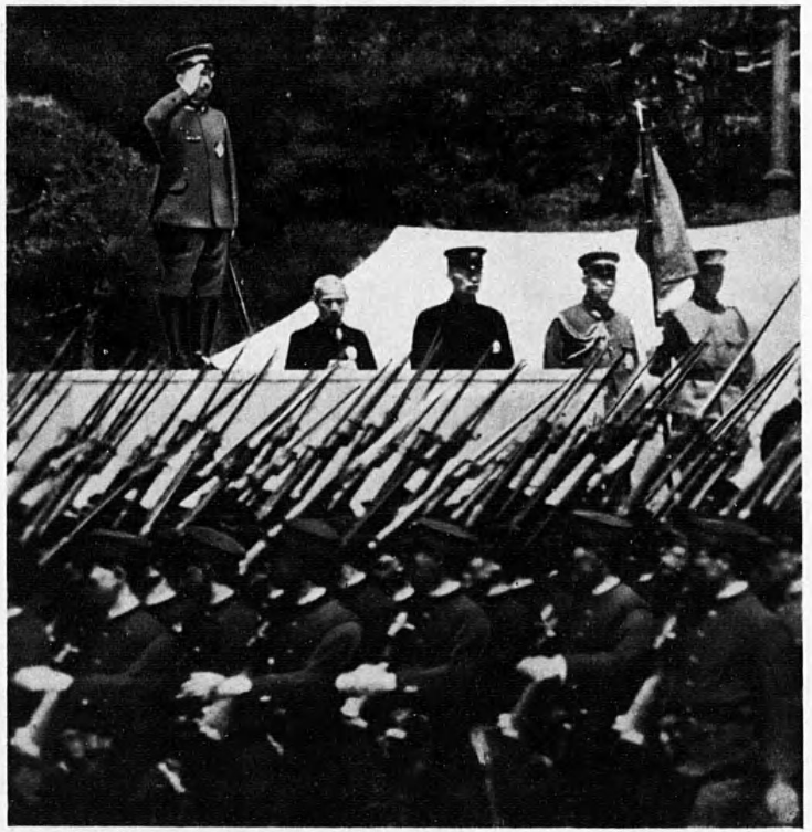 Military parade held in Tokyo on May 22, 1939.